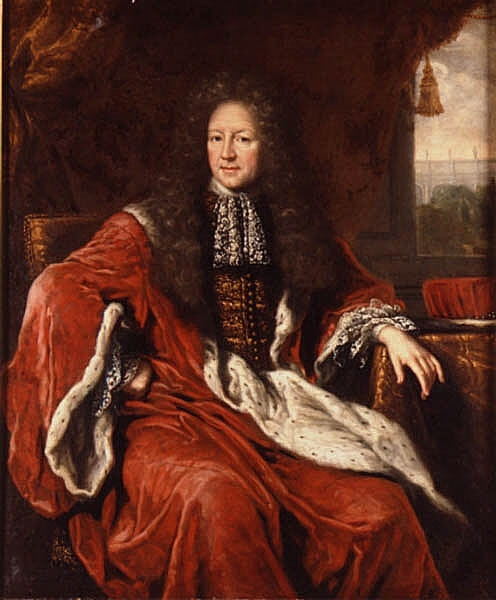 Count Bengt Gabrielsson Oxenstierna af Korsholm and Wasa. Portrait from 1690 by David Klöcker Ehrenstrahl.